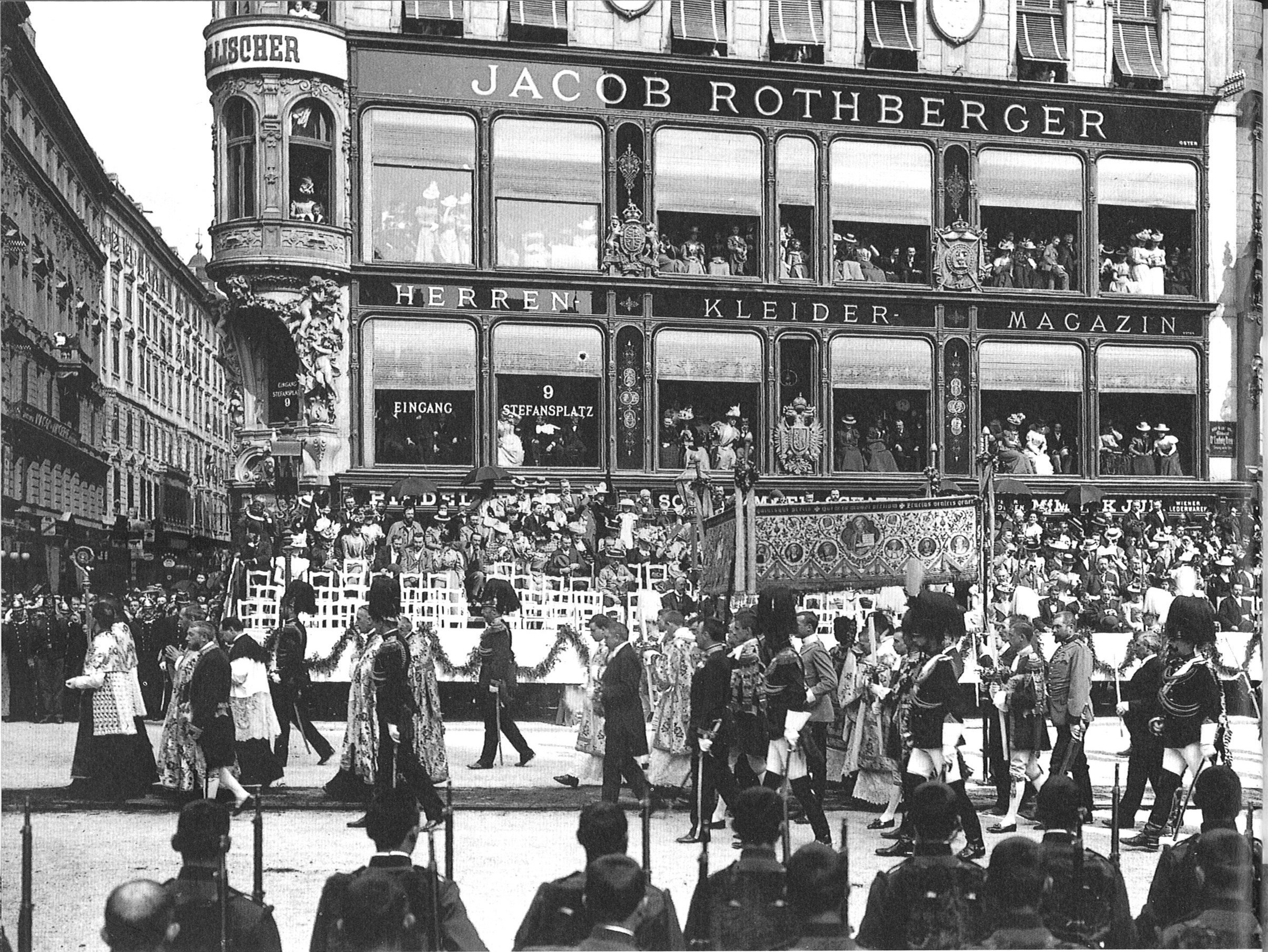 Emperor Franz Joseph I of Austria taking part in the Corpus Christi procession at Stephansplatz in Vienna.